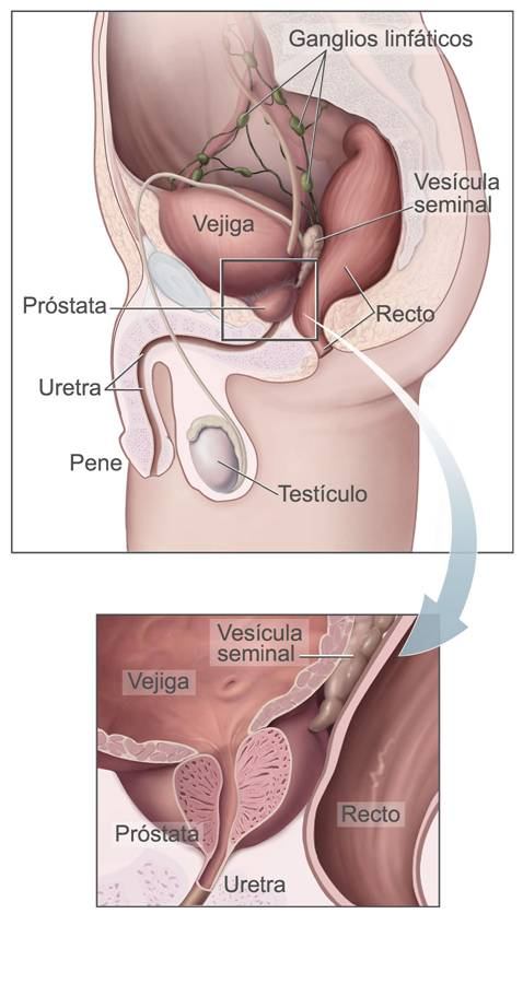 Prostate and bladder, sagittal section.